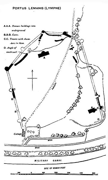 Befundplan des Kastell Portus Lemanis, Lympne (GB).